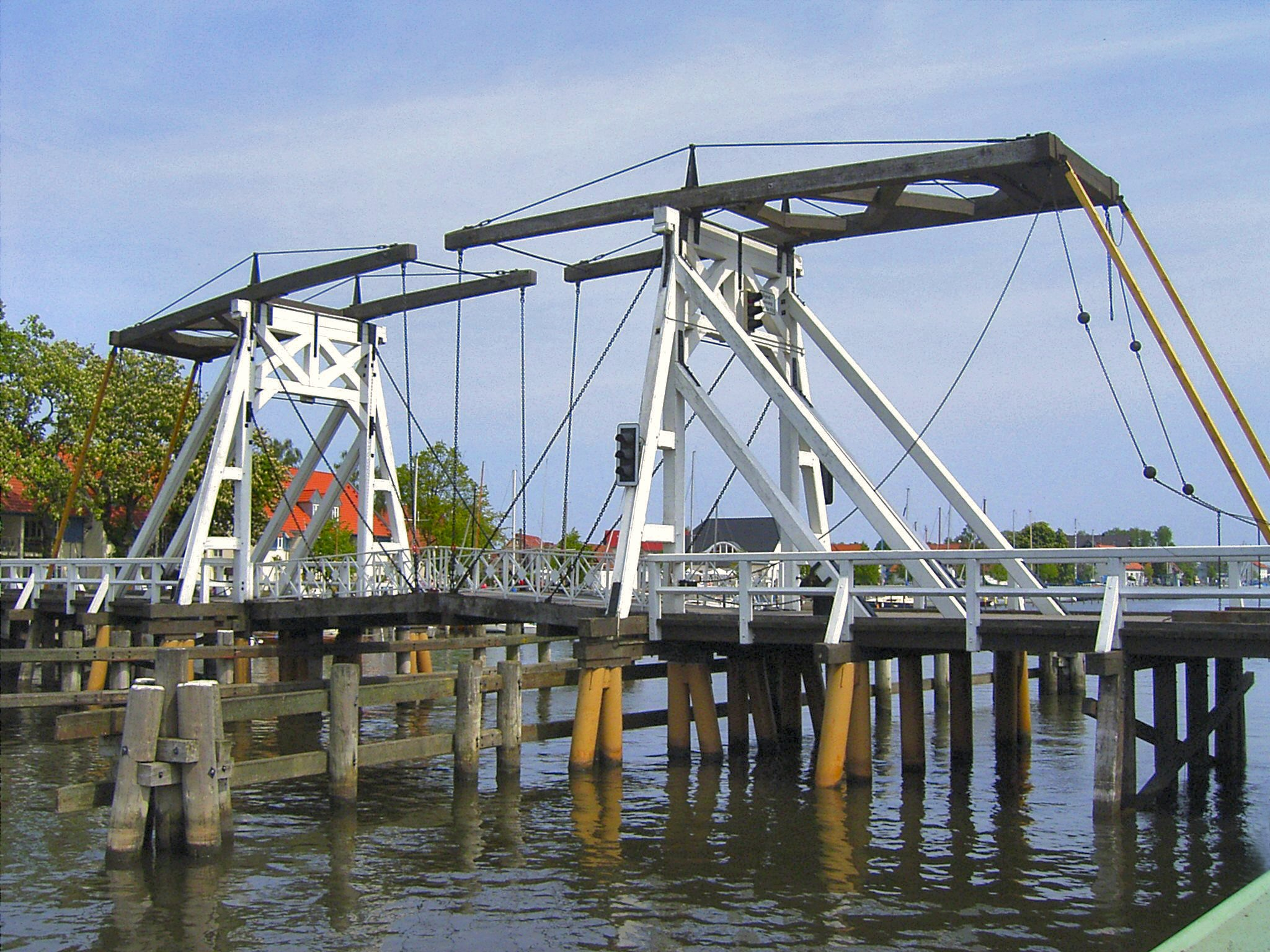 historical bascule bridge in Wieck near Greifswald